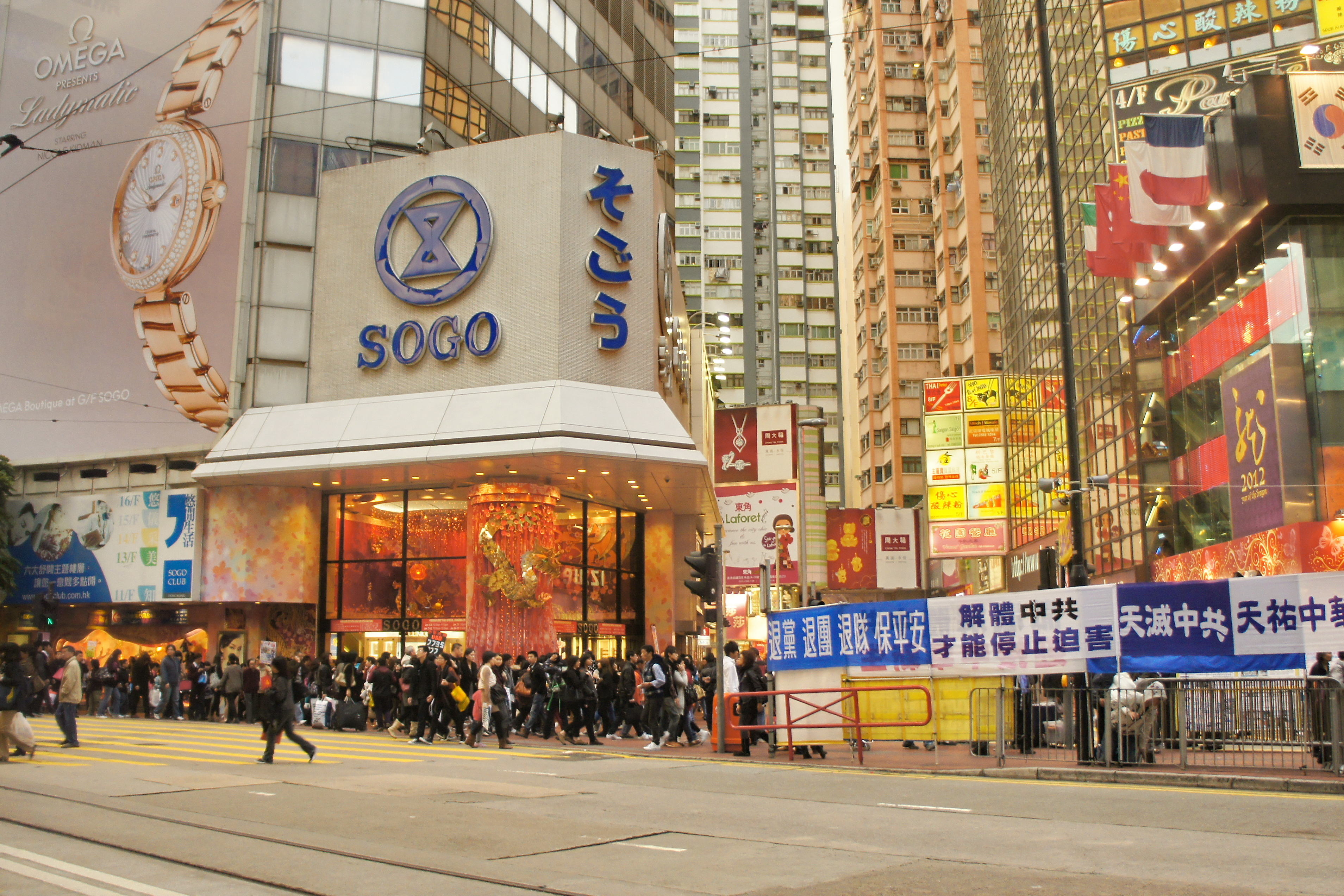 Sogo, Causeway Bay, Hong Kong.